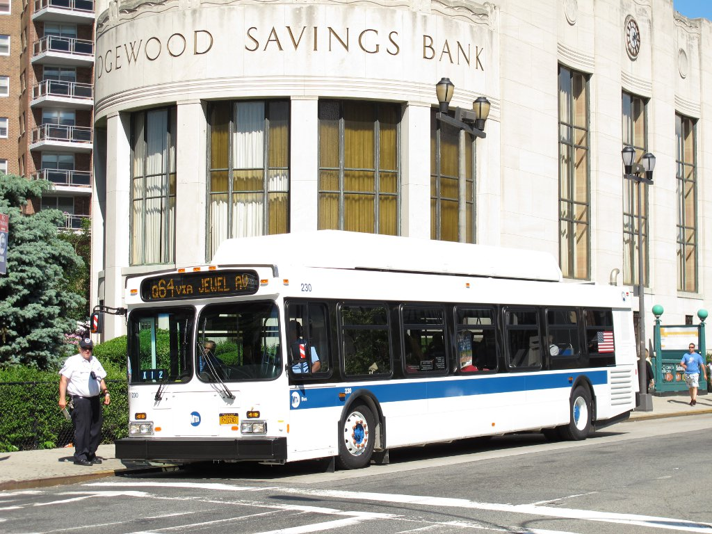 MTA Bus Company New Flyer C40LF #230 picks up customers at the 71/Continental Avenue station on a Q64 trip to Electchester, via Jewel Avenue.